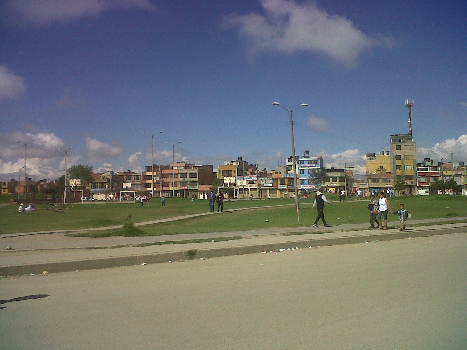 Rincón de Santa Fé neighborhood and her park, Soacha